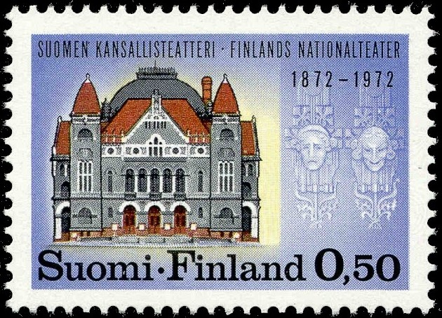 Postage stamp celebrating the 100th anniversary of the National Theatre of Finland